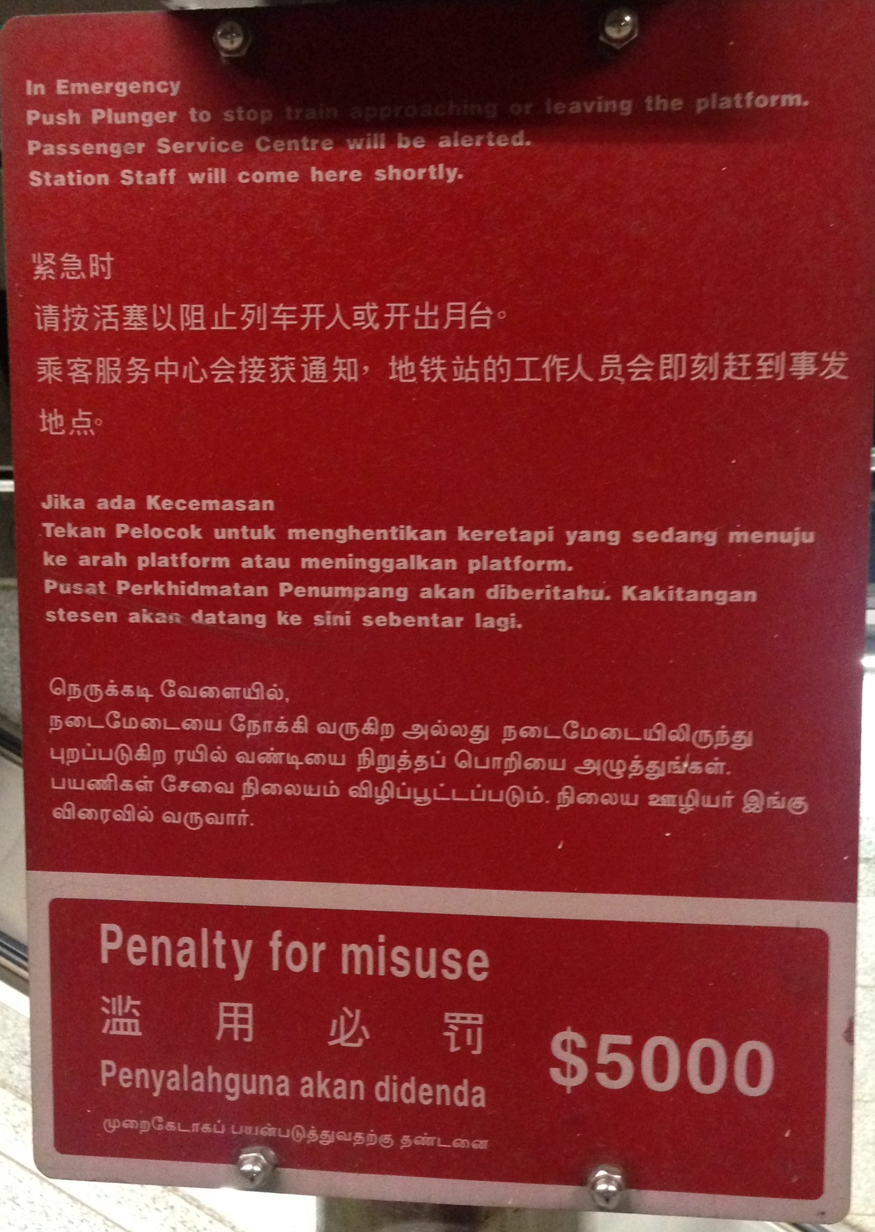 A sign on a Mass Rapid Transit train explaining in the four official languages of Singapore the use of the emergency plunger and warning of the consequences of misuse.